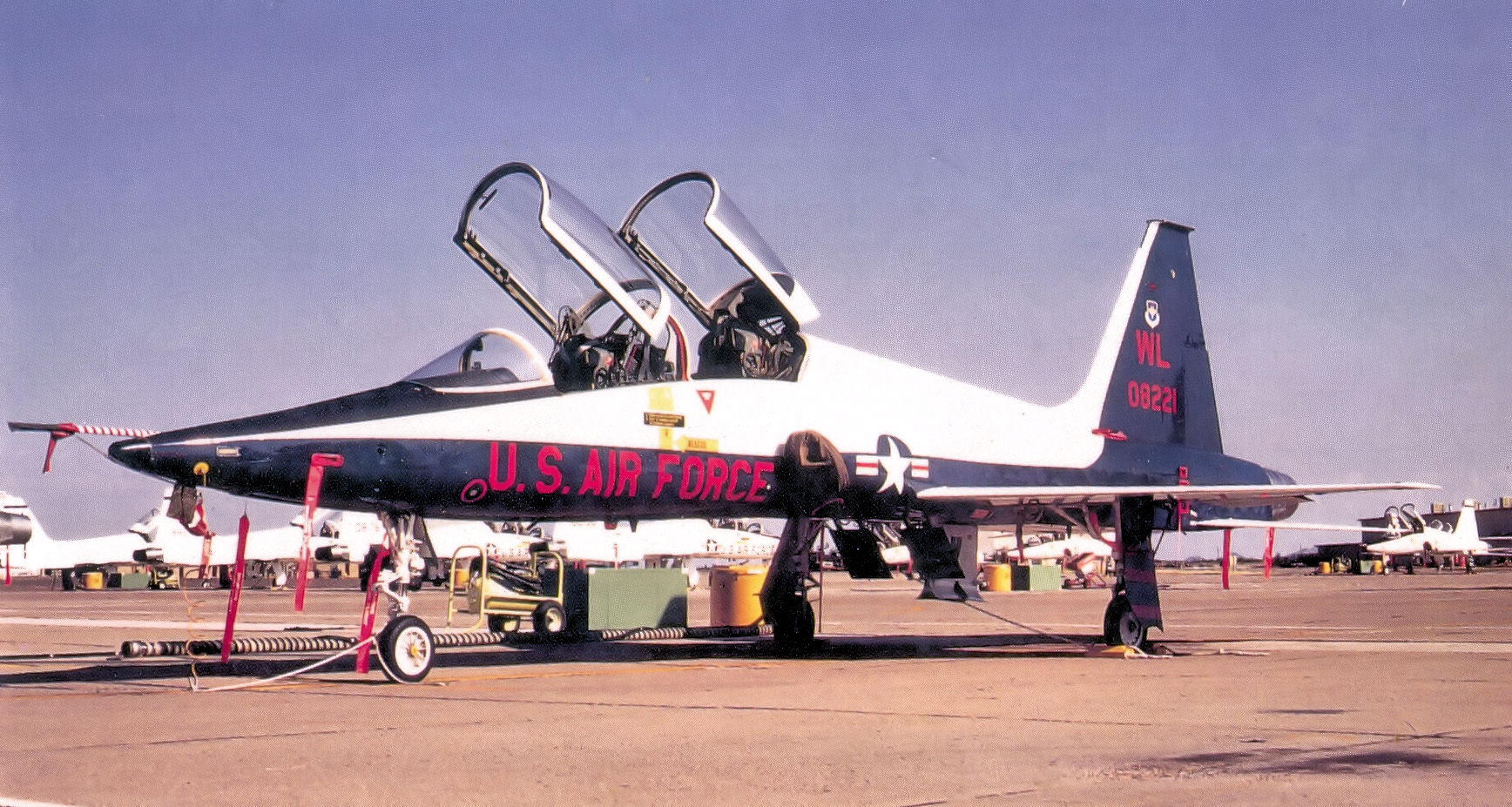 82d Flying Training Wing Northrop T-38A-50-NO Talon 63-8221, Williams AFB, Arizona, 1986. Retired to AMARC as TF0293 Feb 2, 1995. Still on AMARC inventory Jan 15, 2008